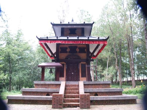 Saraswoti temple at Budhanilkantha School